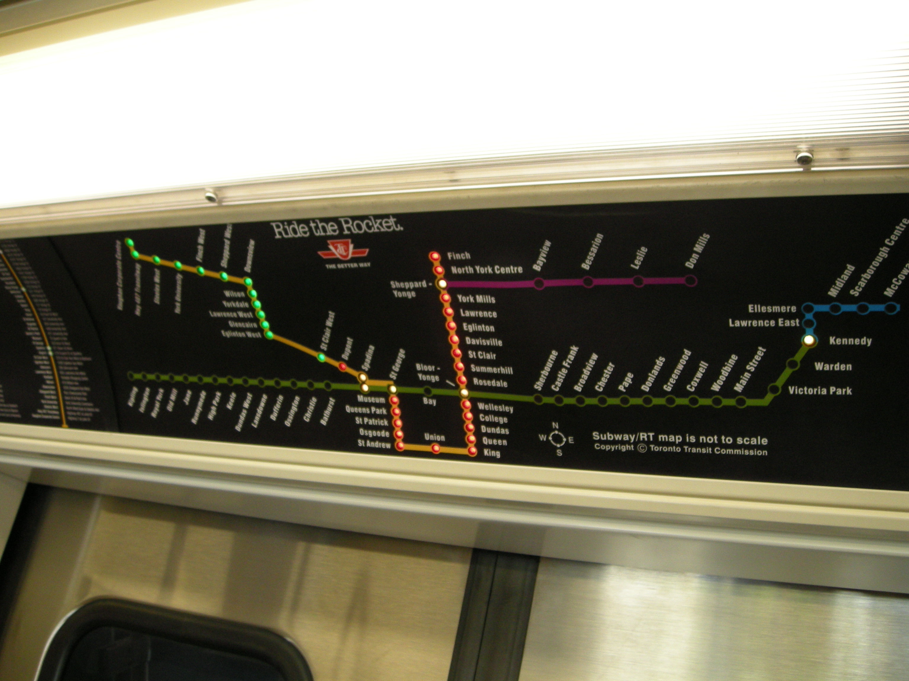 A sample of what an "active route map" might look like on TTC vehicles. Taken at the CNE in the mockup of the new subway car.